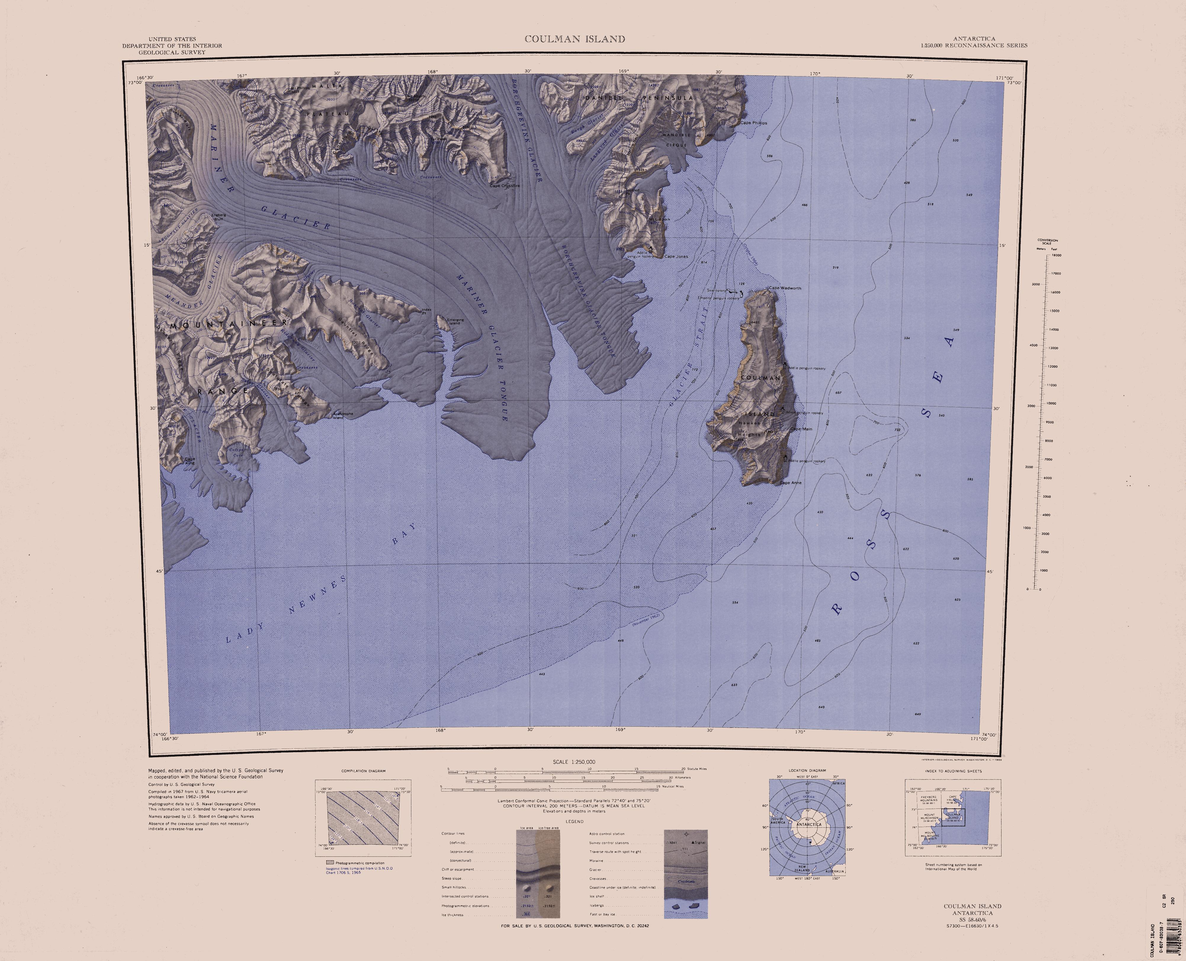 1:250,000-scale topographic reconnaissance map of the Coulman Island area from 166°30'-171°E to 73°-74°S in Antarctica, including Mariner and Borchgrevink Glaciers. Mapped, edited and published by the U.S. Geological Survey in cooperation with the National Science Foundation.